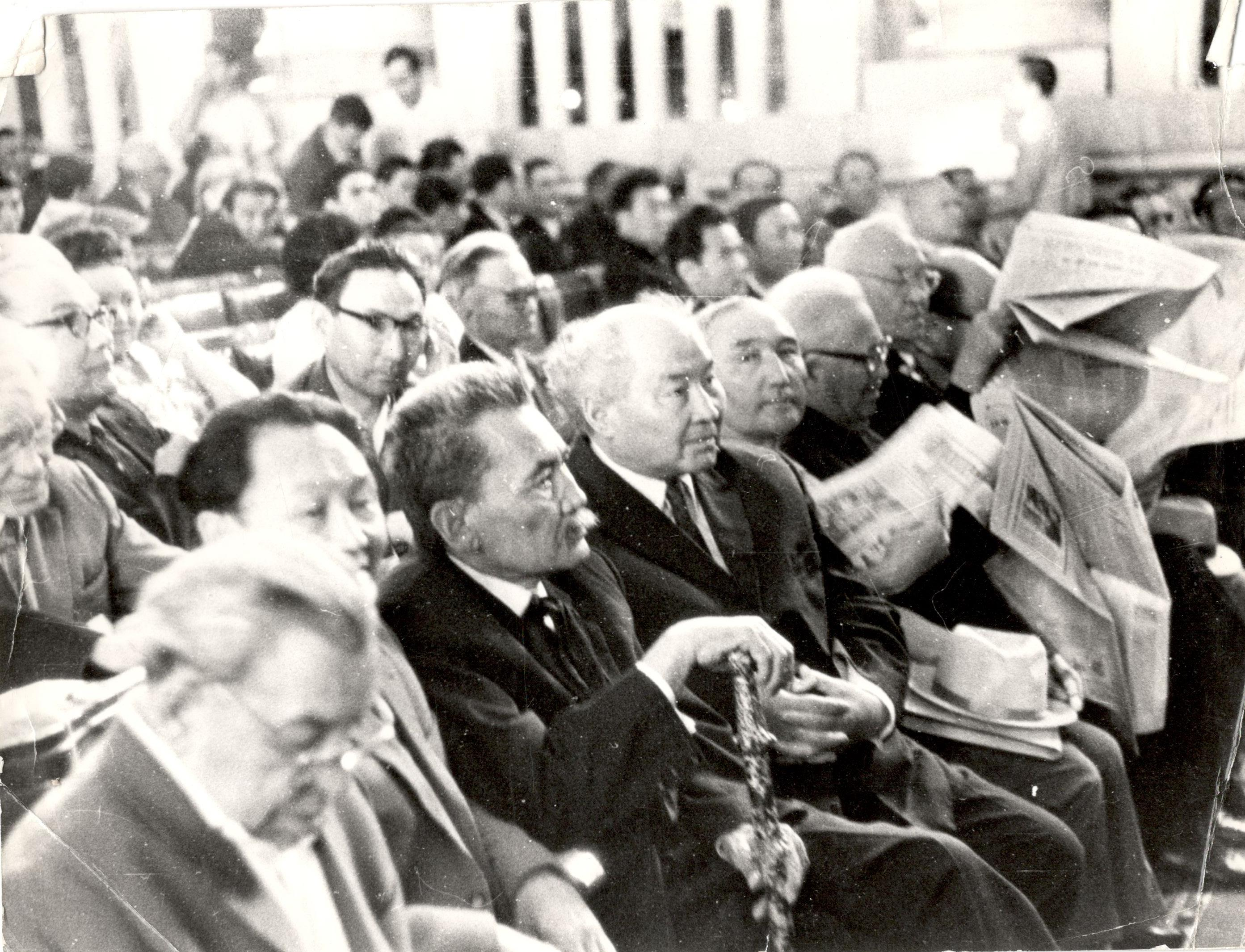 Baurzhan Momyshuly and Alkey Margulan are attending writer's summit.